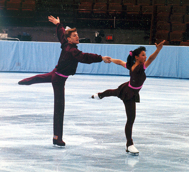 Todd Sand and Natasha Kuchiki.